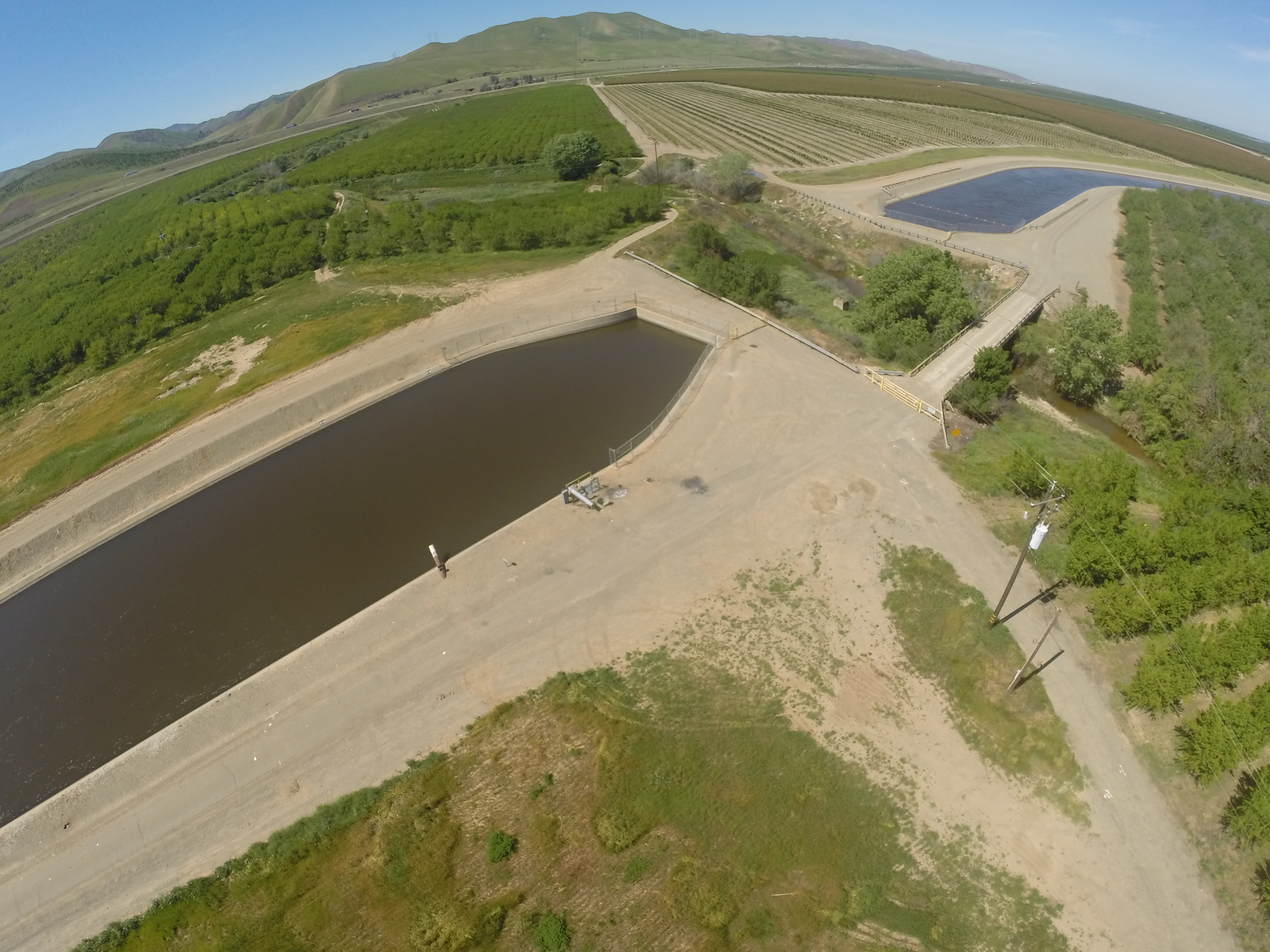 Oblique aerial photo with fish eye lens of the Delta Mendota Canal north of Patterson, California.